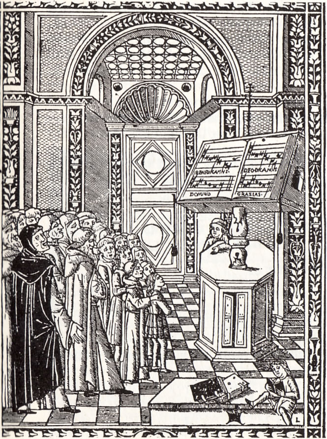 choral book